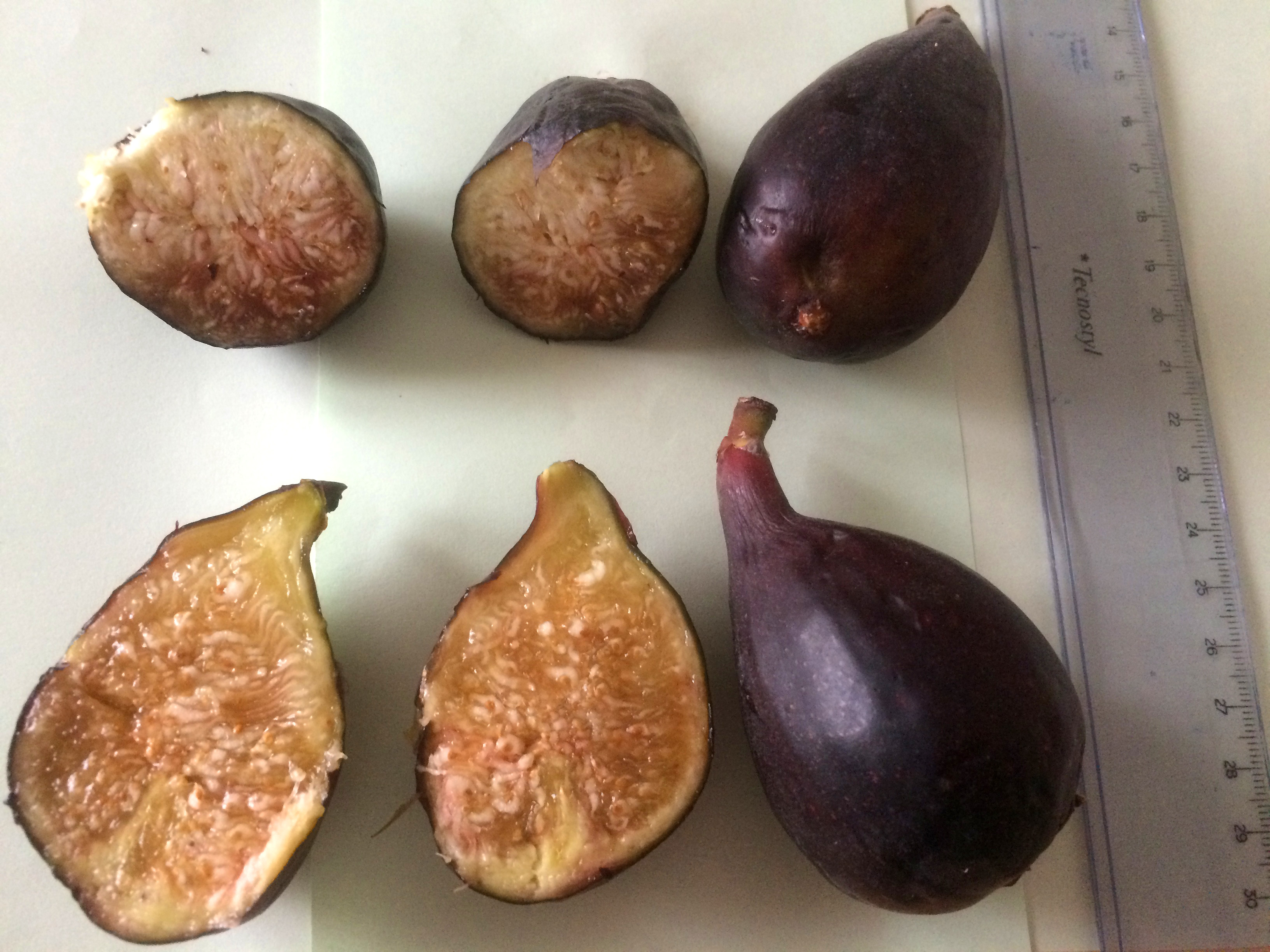 'Albacor' syn. 'Colar Elche', 'Colar d'Albatera' breba